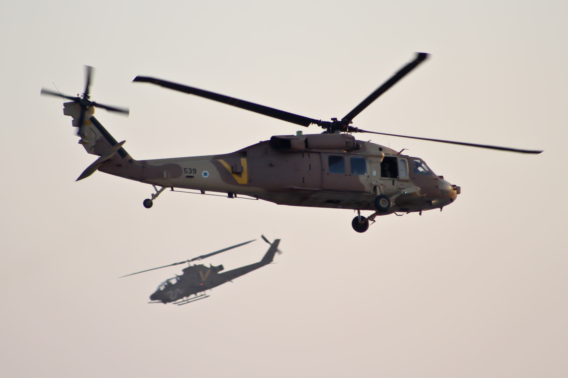 Israeli Air Force UH-60 and AH-1 at the IAF Academy's Ranks ceremony, 26 June 2012